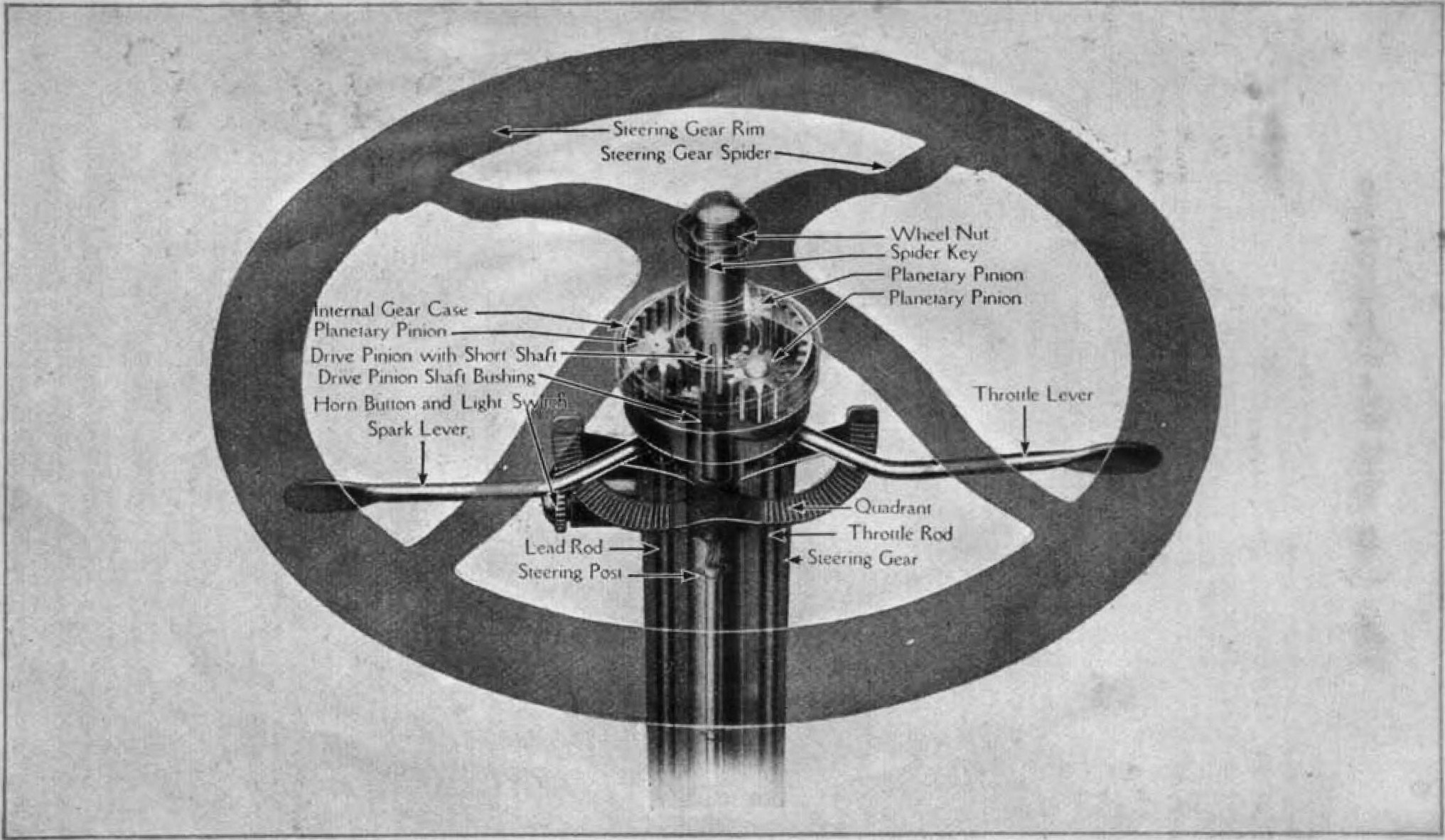 1919 Ford Motor Car and Truck operating manual